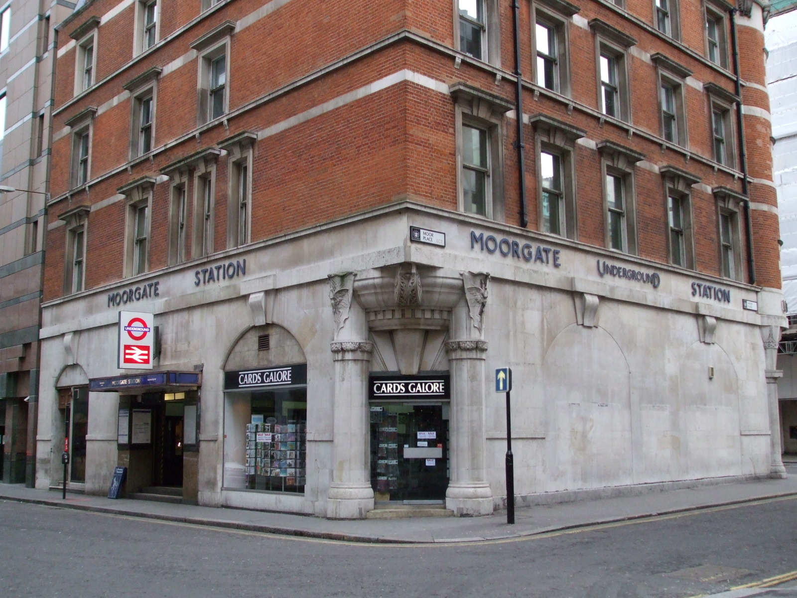 One of two Moorgate station entrances in Moorfields, just to the west of Moorgate itself (the latter just visible on the extreme right)